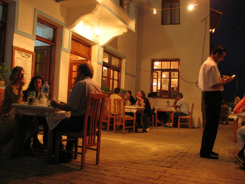 Barba Yorgo Restaurant in Tepekoy, Gokceada island, Turkey.